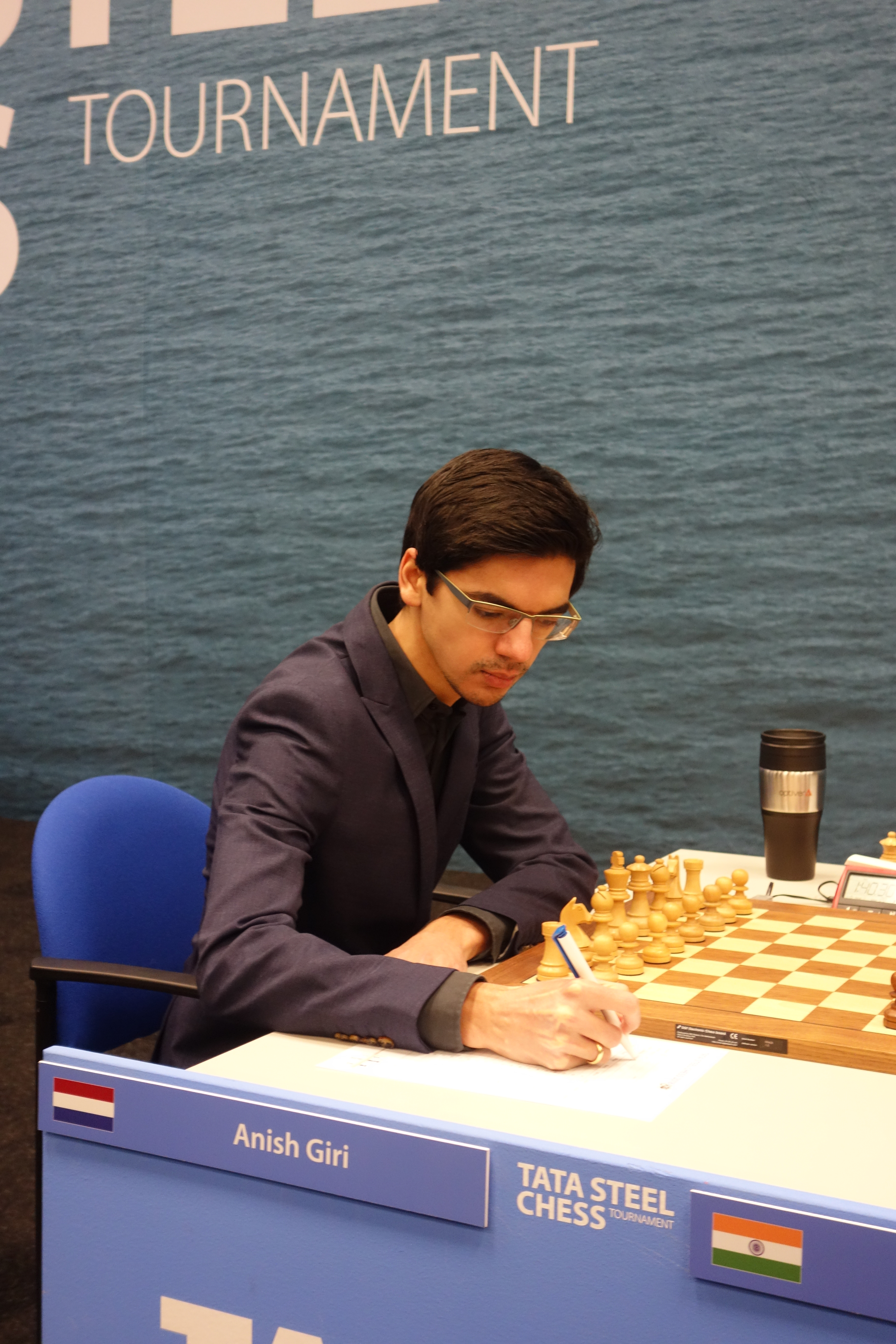 Tata Steel chess tournament 2018